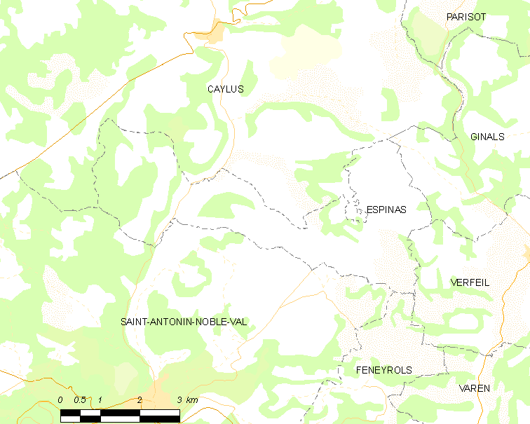 Map of French municipality Espinas